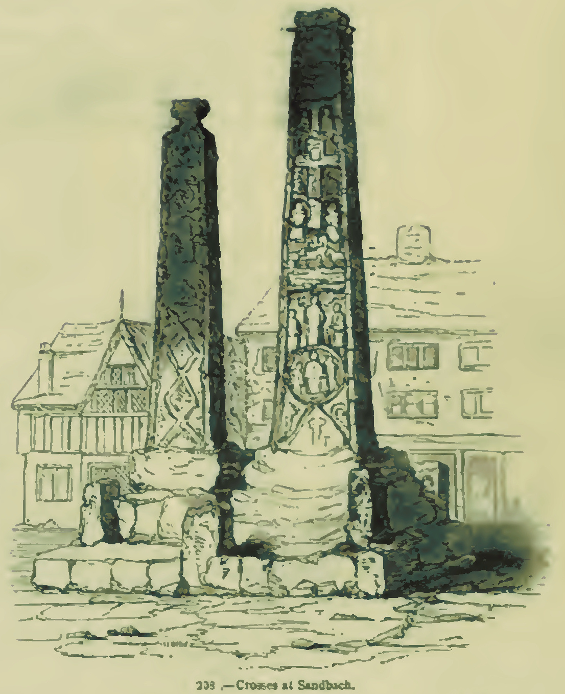 Sandbach Crosses before 1860, from Old England : a pictorial museum of regal, ecclesiastical, municipal, baronial, and popular antiquities (1860?), Charles Knight 1791-1873